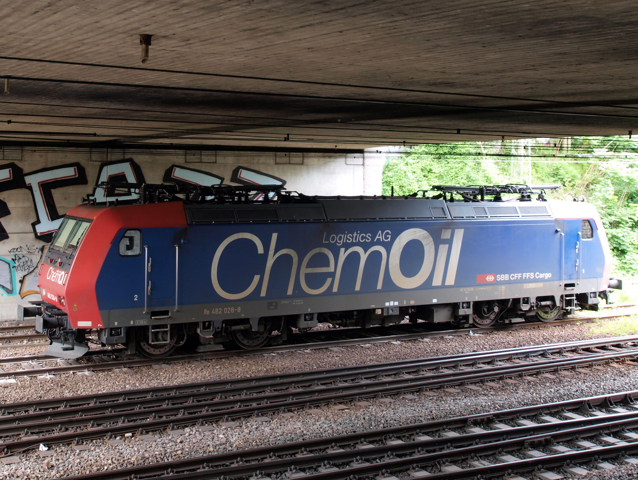 Photographed in Germany.